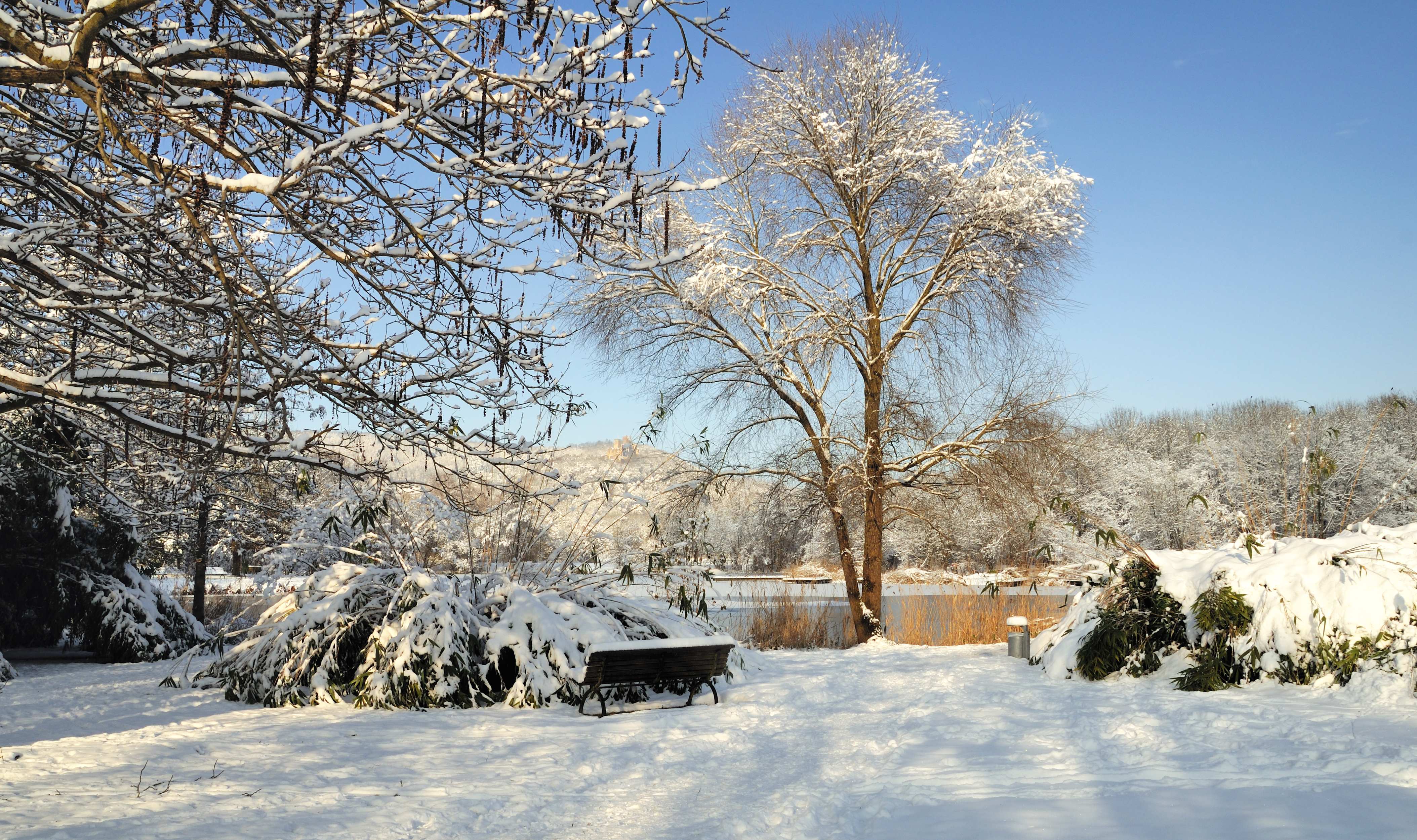 Lörrach: Park "Grütt" with lake in wintertime